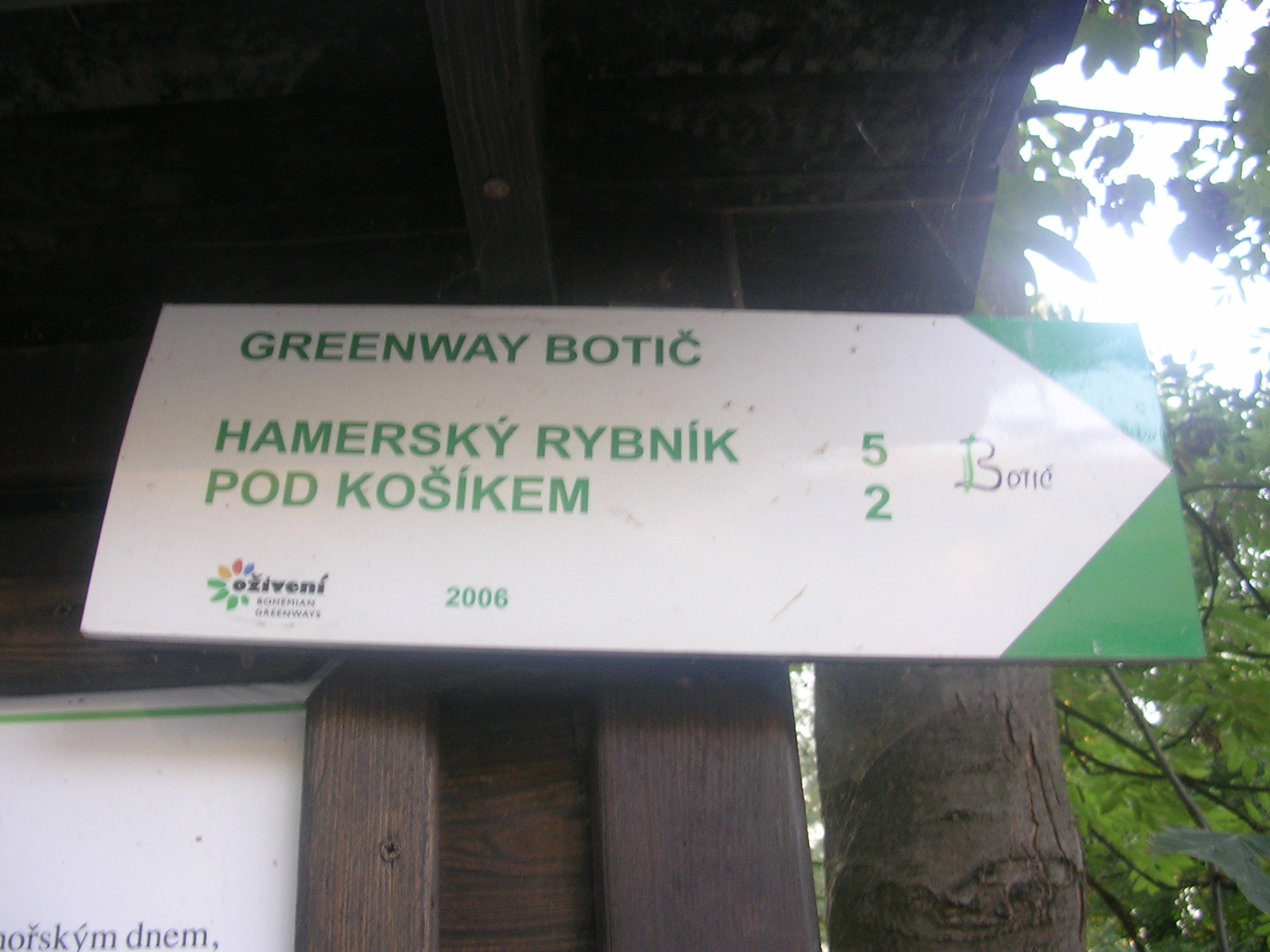 Hostivař, Prague, the Czech Republic. A board of Greenway Botič. - Google Maps - Google Earth